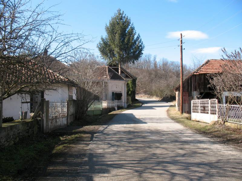 Sibnica